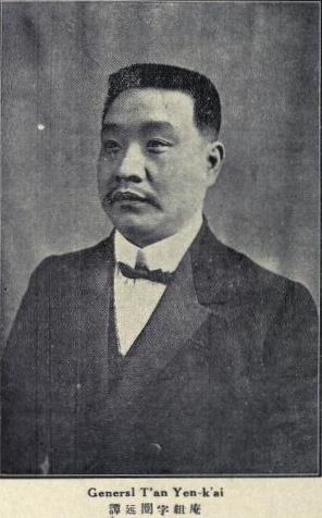 Tan Yankai (T'an Yen-k'ai), Zu'an (1879 - 1930)